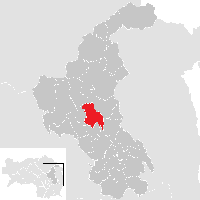 district Weiz